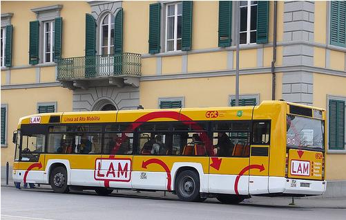 Pisa bus